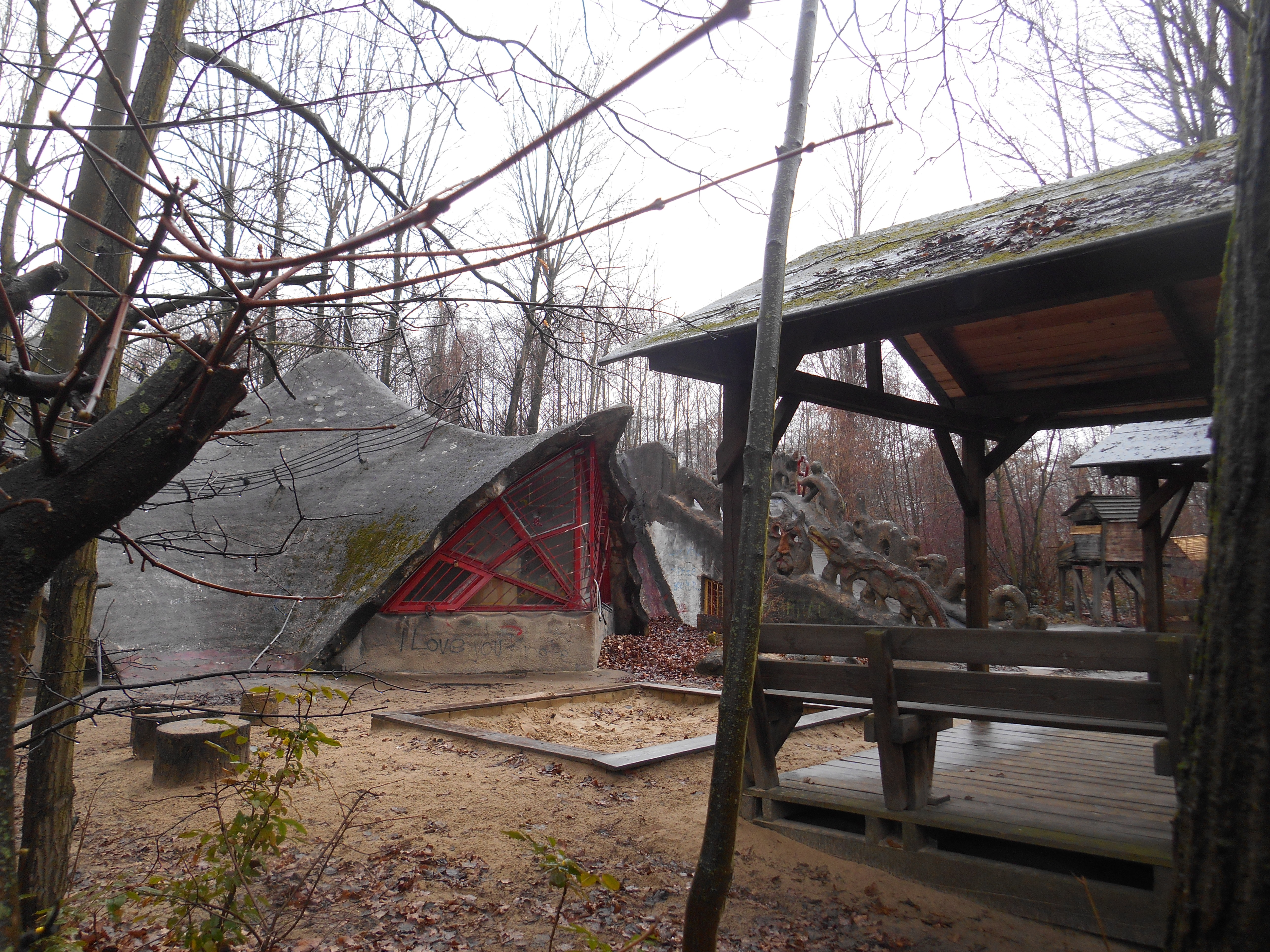 Adventure Playground in Märkisches Viertel, Berlin-Reinickendorf, Berlin (Germany)